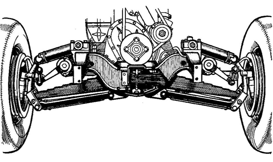 Studebaker front suspension (Autocar Handbook, 13th ed, 1935).jpg